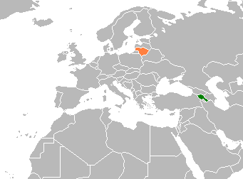 Armenia Lithuania Locator